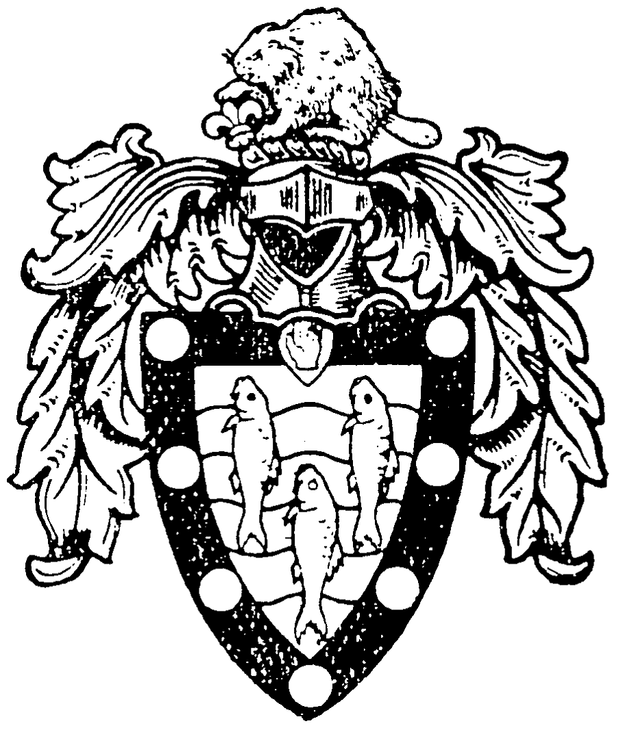 Sir William Osler, 1st Baronet coat of arms Arms Barry wavy argent and azure, three pilchards hauriant proper, all within a bordure sable charged with eight bezants. Crest A beaver proper resting the dexter foot on a fleur-de-lys or. Motto Dii laboribus omnia vendunt. (not shown)